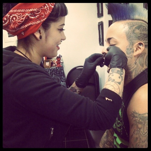 Doing a septum piercing using a receiving tube